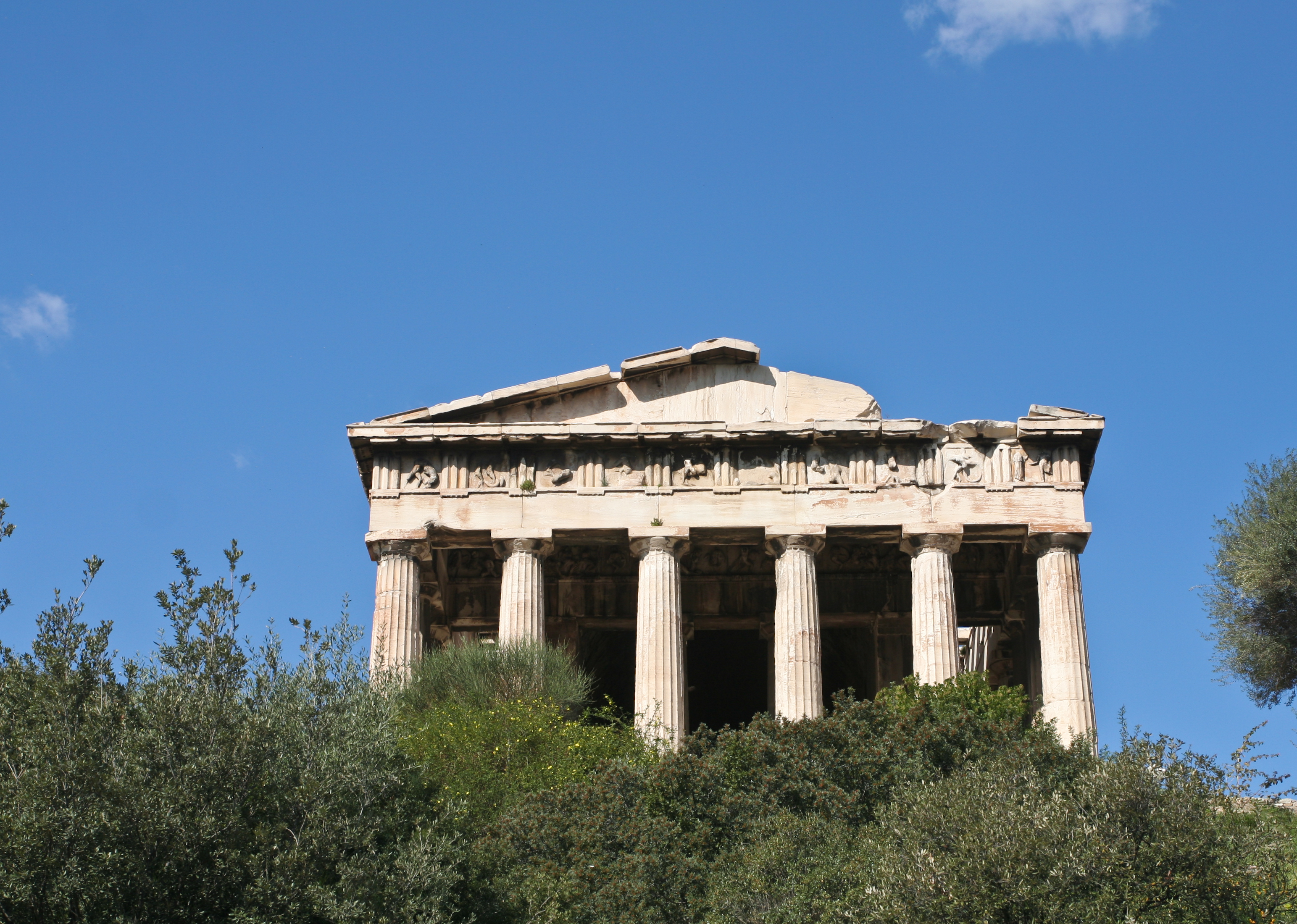 The best preserved ancient Greek temple in the Ancient Agora and dedicated to Hephaestus, patron-god of metal-workers, and Athena Ergane, patron-goddess of pottery and crafts. It was located near the artistan quarters.